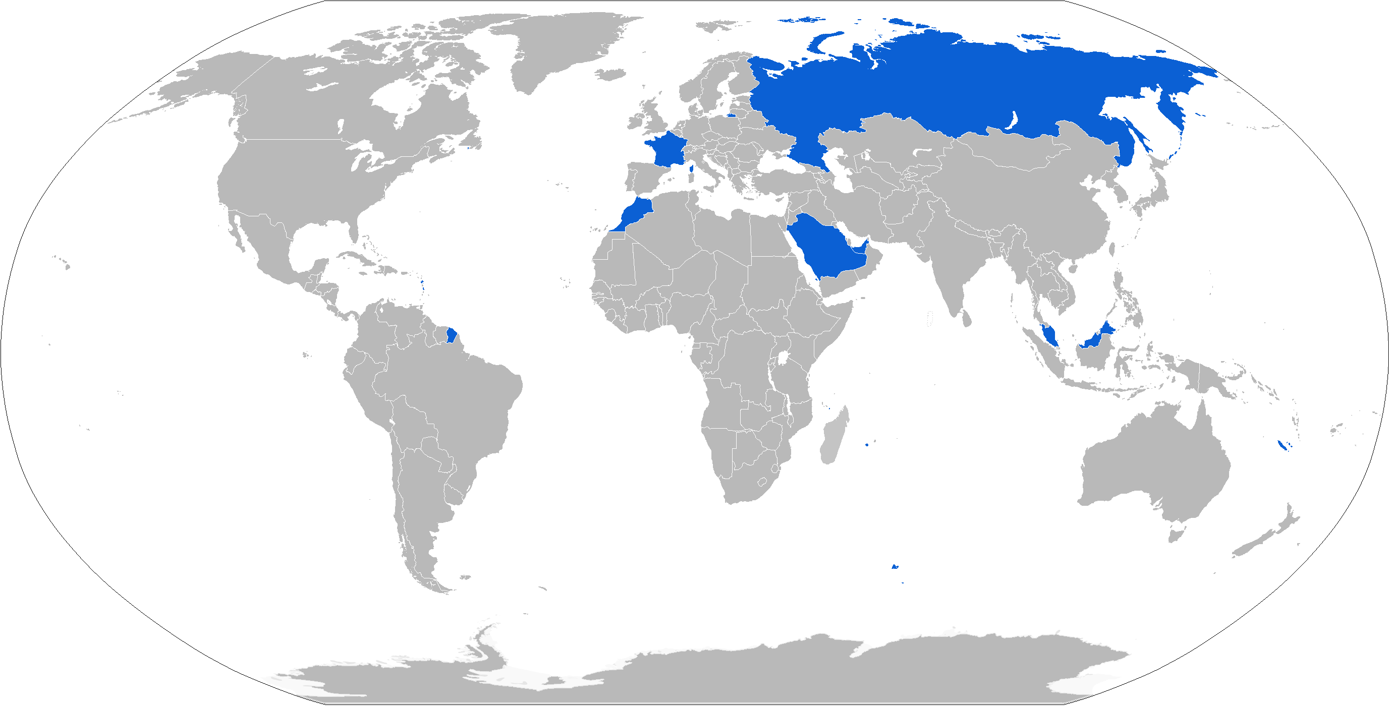 Map with Damocles operators in blue